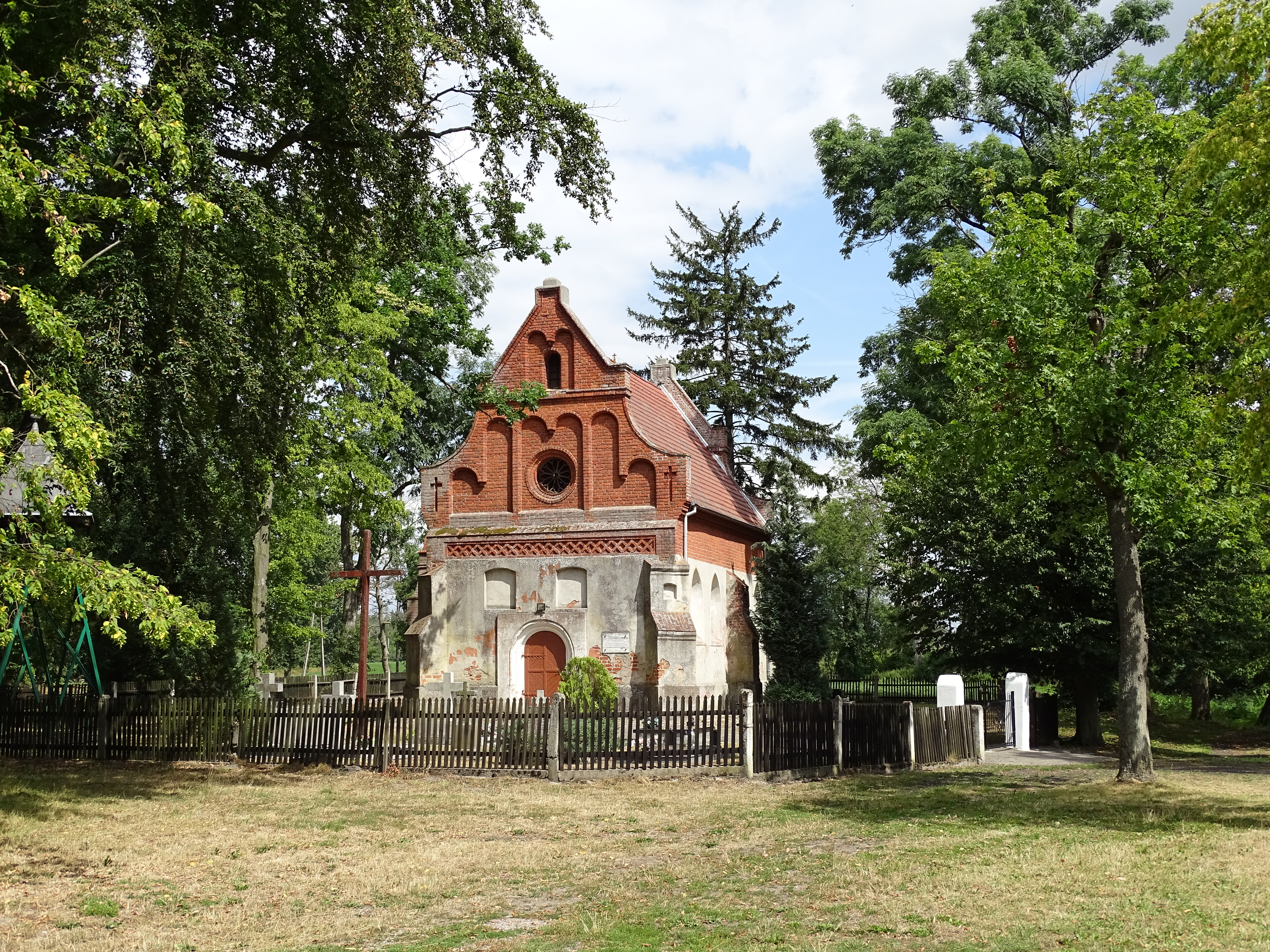 Orle, Gmina Mrocza, Poland. Church of Saint Matthias from the 15th century.